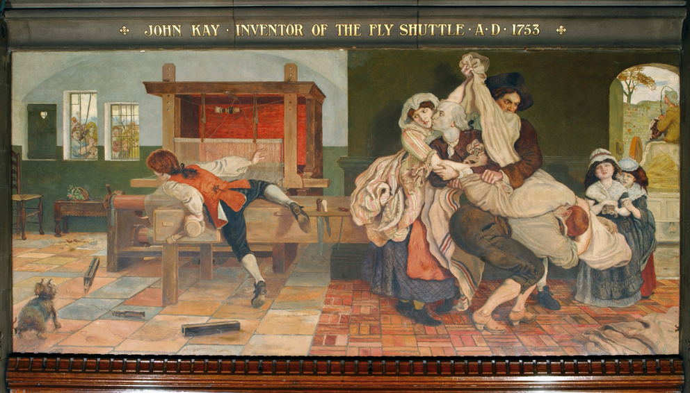 "John Kay, Inventor of the Fly Shuttle A.D. 1753" by Ford Madox Brown, a mural at Manchester Town Hall.